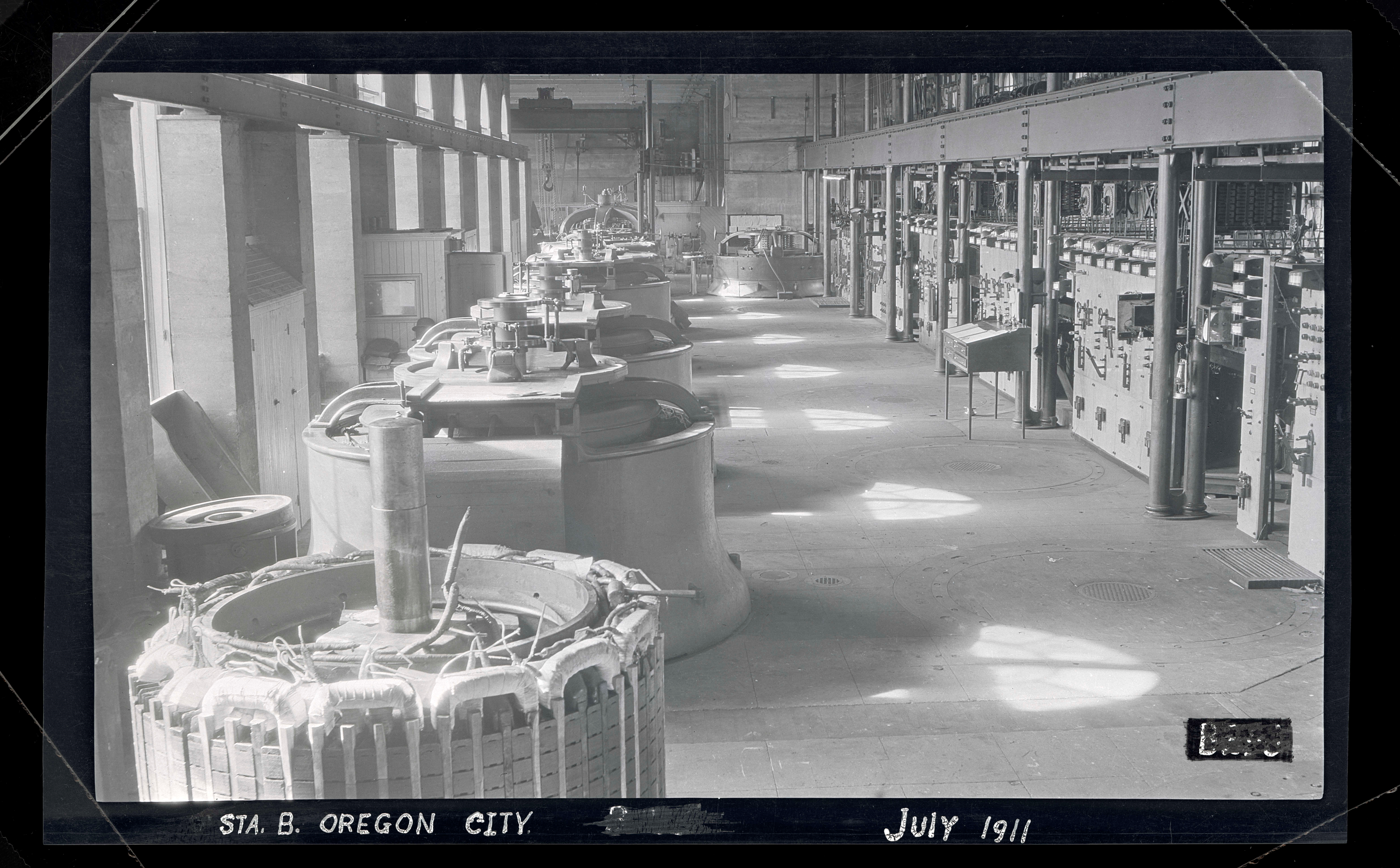 PGE Portland General Electric glass plate photo dame powerhouse Sullivan